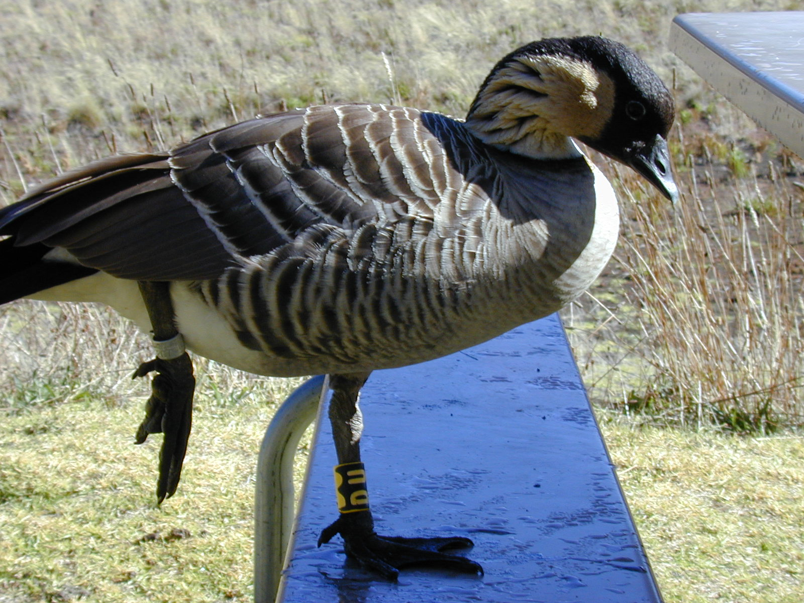 Plantago lanceolata (nene). Location: Maui, Kapalaoa Haleakala National Park